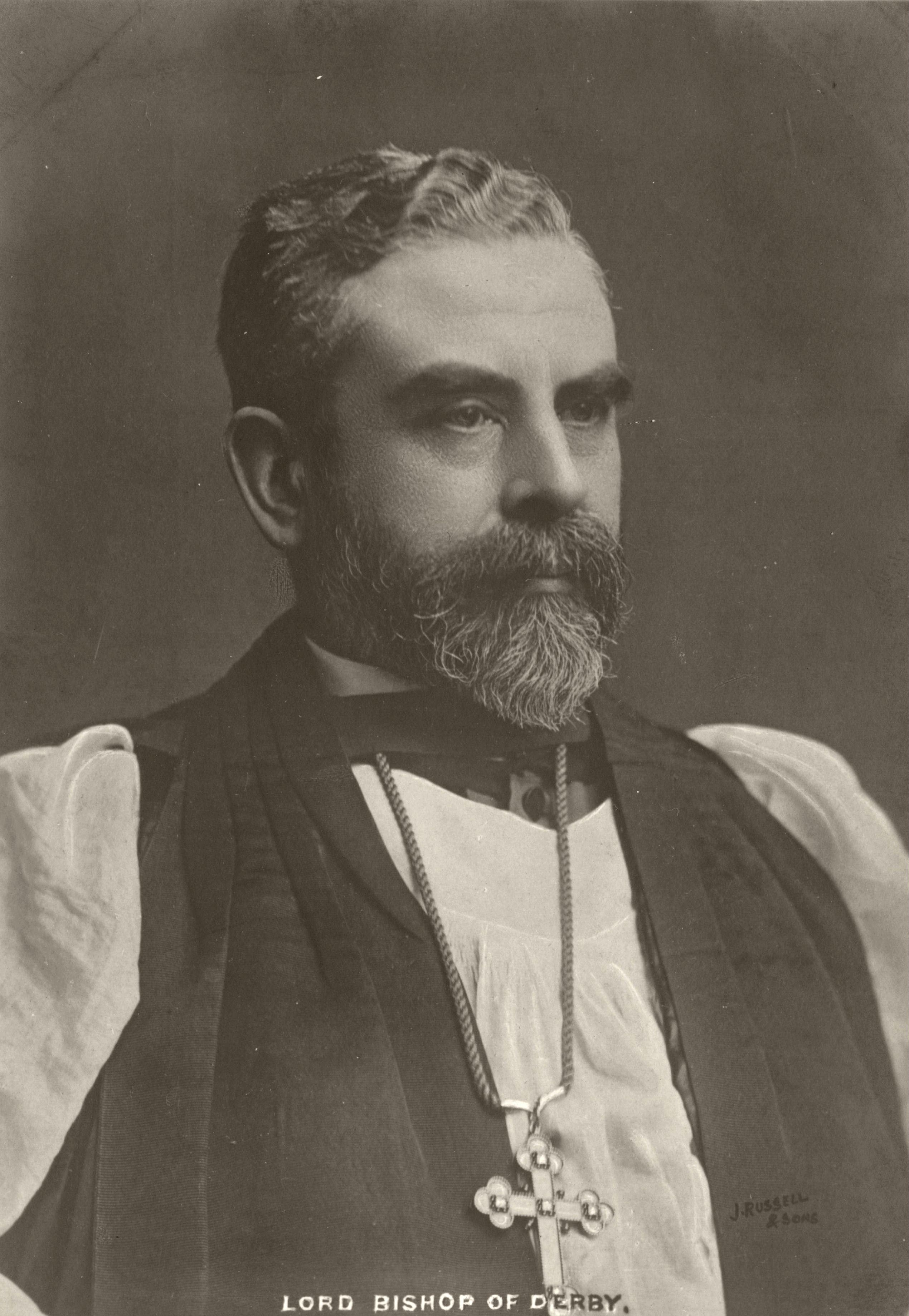 Postcard photo of Edward Ash Were (1846-1914), Suffragan Bishop of Derby.